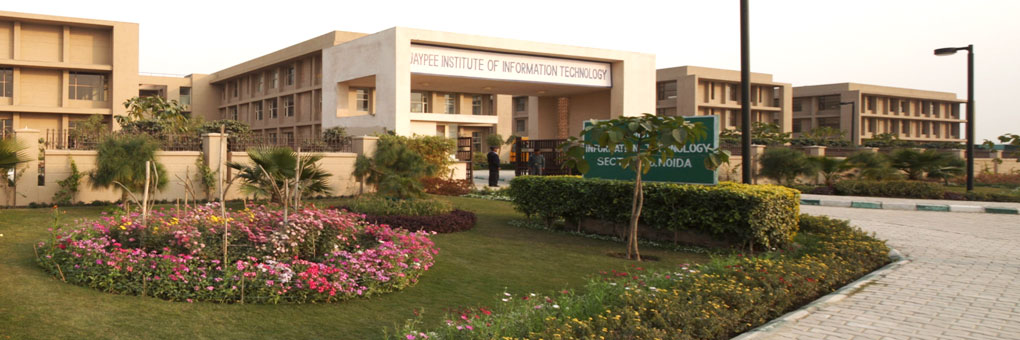 J128 day outside